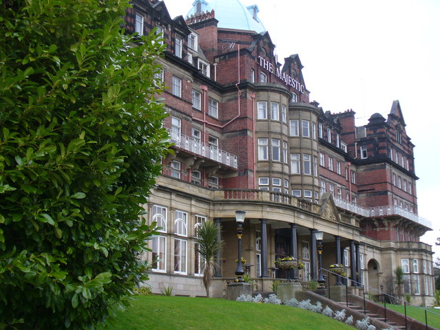 The Majestic Hotel Majestic Victorian grandeur living on in Harrogate. This exclusive hotel looks down on the Harrogate Conference Centre.